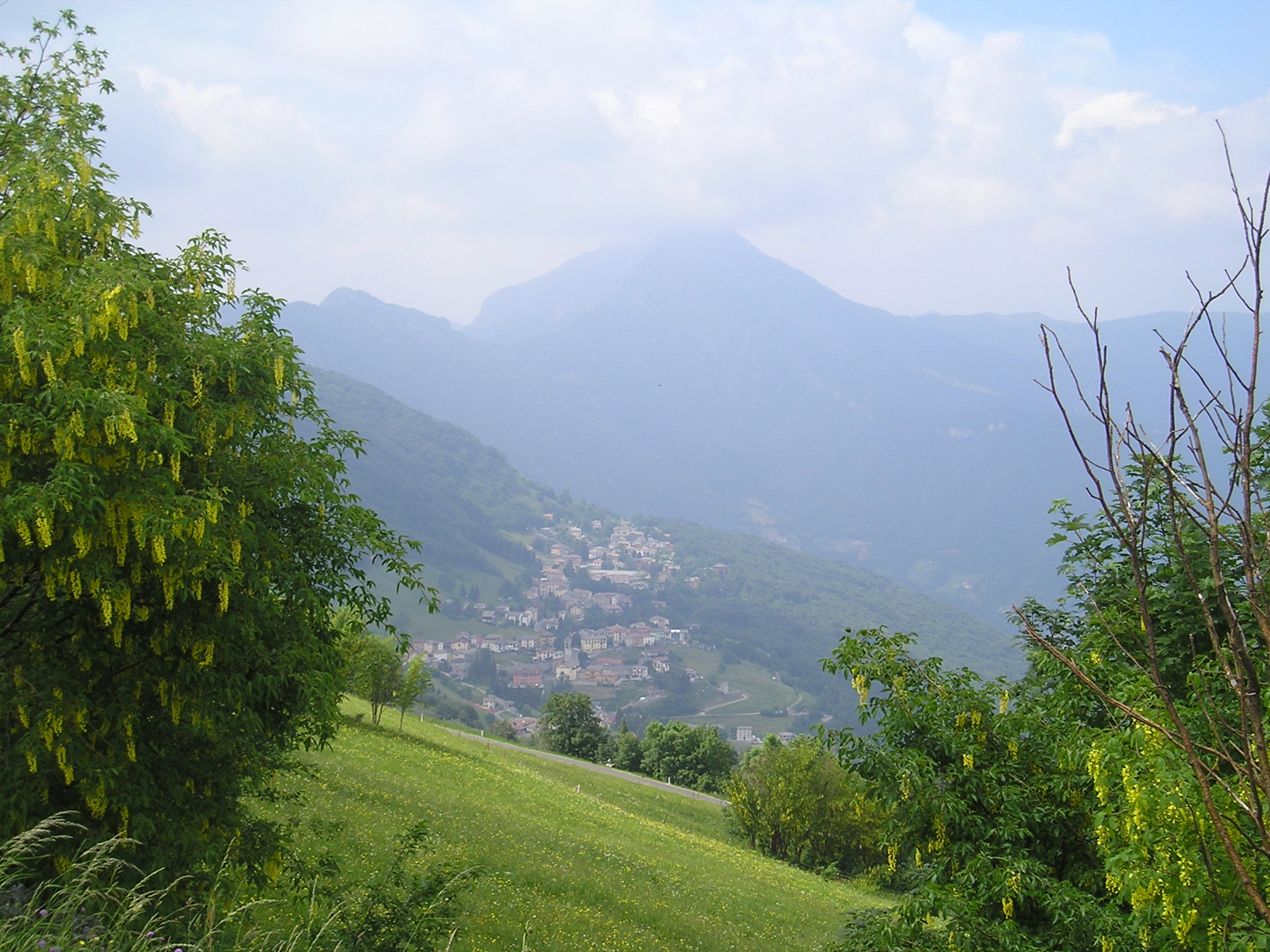 Costa Valle Imagna, viewed from above. Picture taken 2004 by User:Massimo Macconi